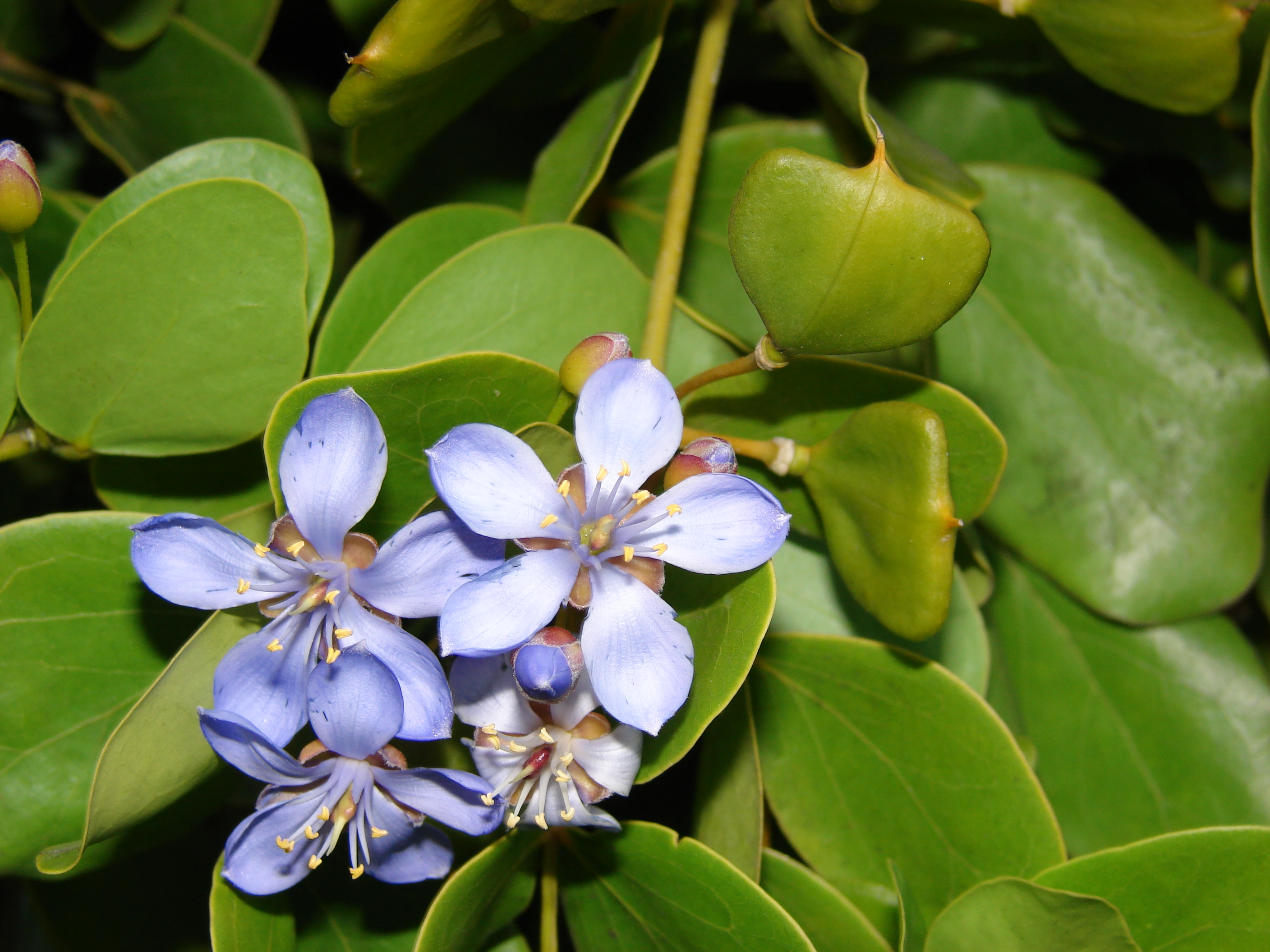 Guaiacum officinale (leaves flowers and fruit). Location: Oahu, Ala Moana Beach Park